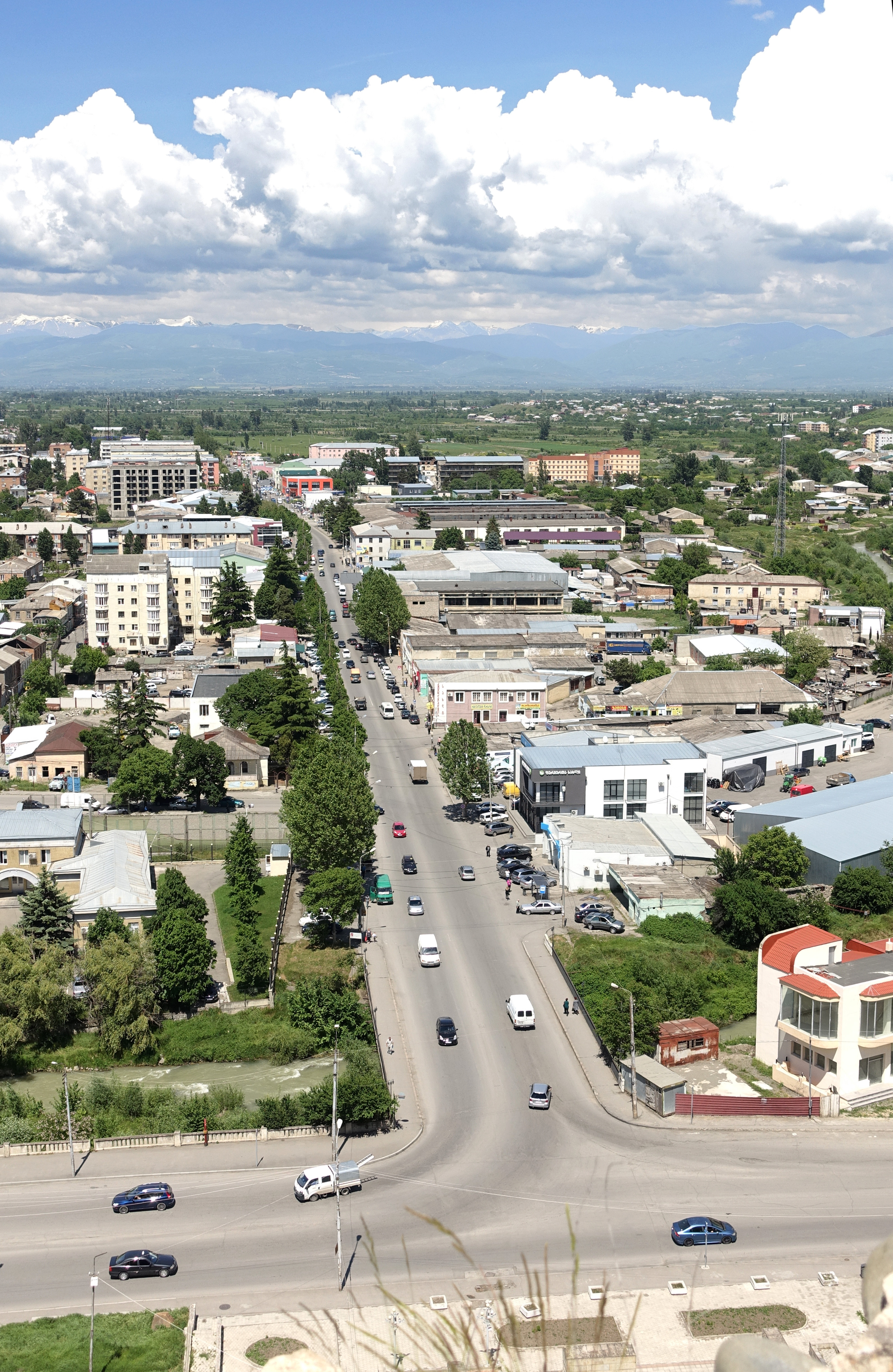 Tskhinvali Highway in Gori, Georgia.